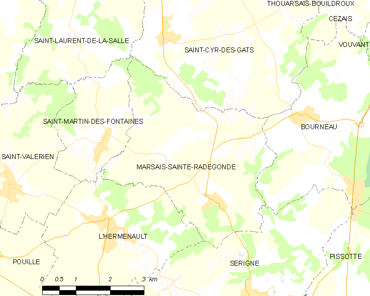 Map of French municipality Marsais-Sainte-Radégonde